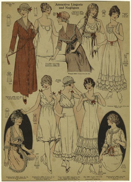 Nightgown negligees of different variations. 1915 negligees are recognised for their flowy style.